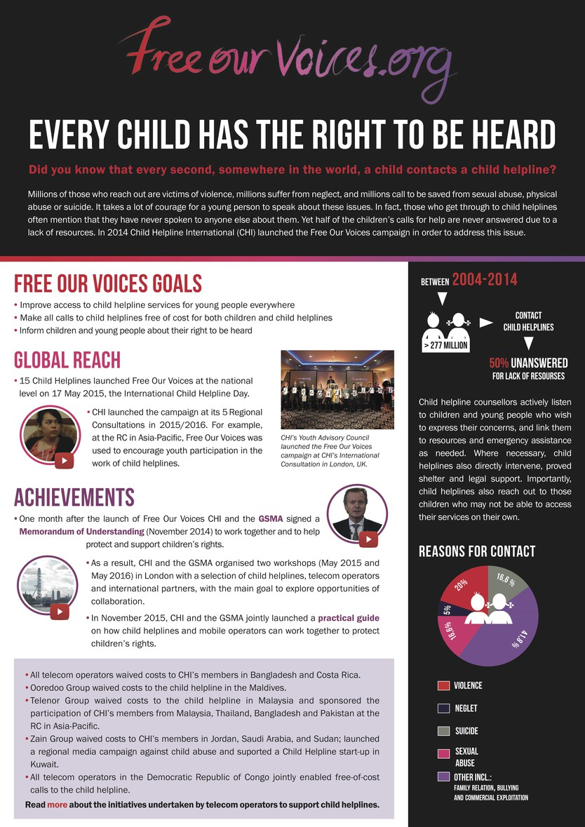 A description of successes of the Free Our Voices Campaign